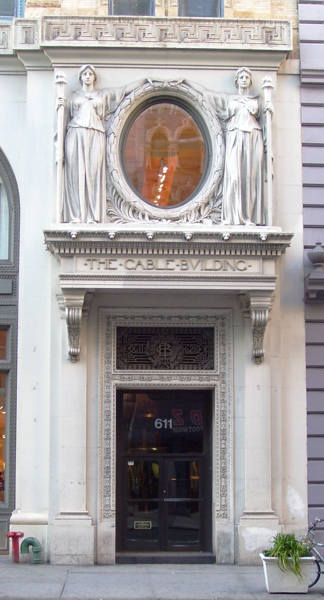 The Cable Building, at 611 Broadway at Houston Street in the NoHo district of lower Manhattan, New York City, was built in 1892-1894, and was designed by McKim, Mead & White. It was the headquarters and power station for one of the city's cable car companies. It is now offices, and the Angelika Film Center occupies the southwest corner of the building at Houston and Mercer Streets.